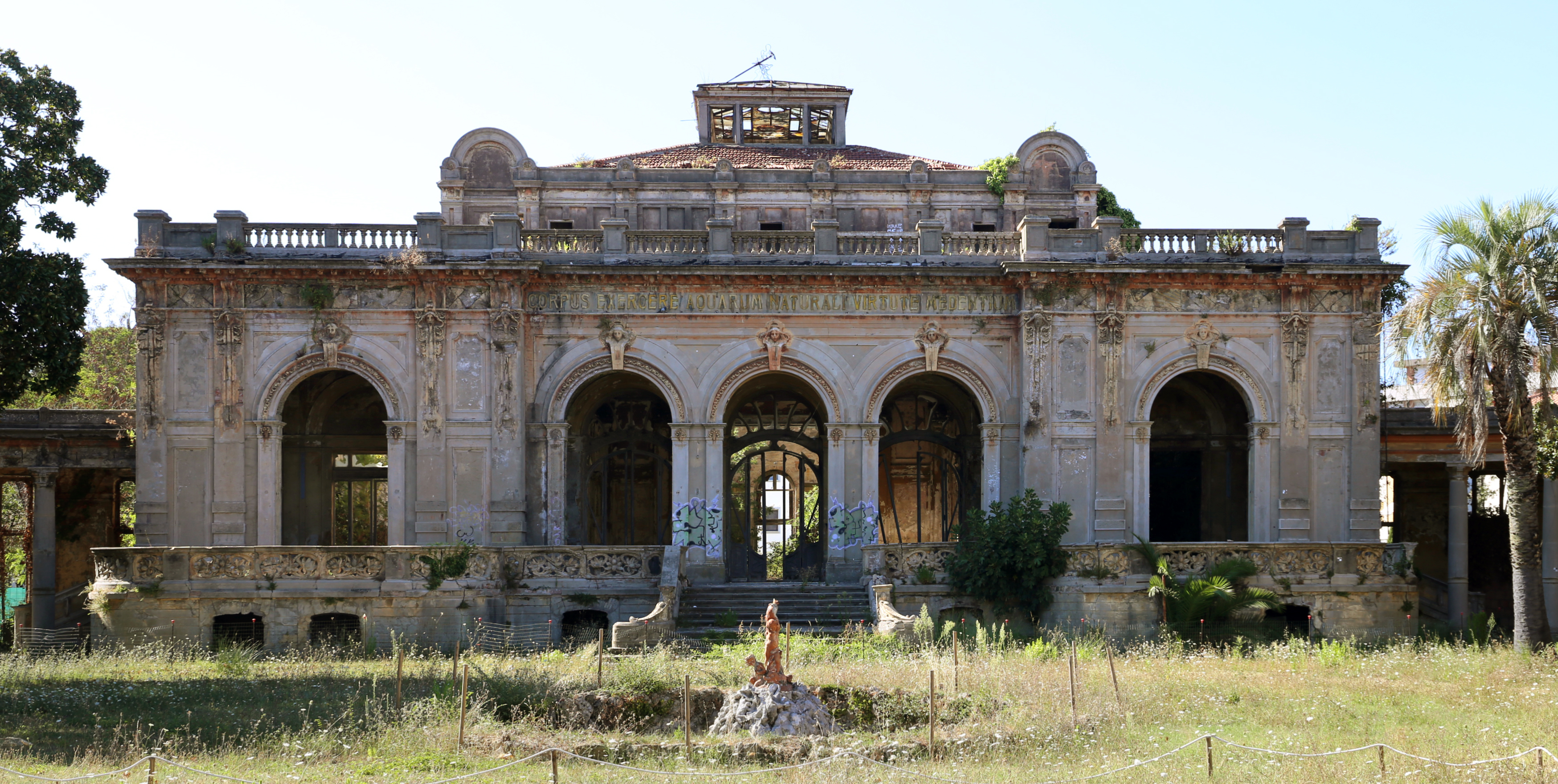 Stabilimento termale Acque della Salute (Livorno)